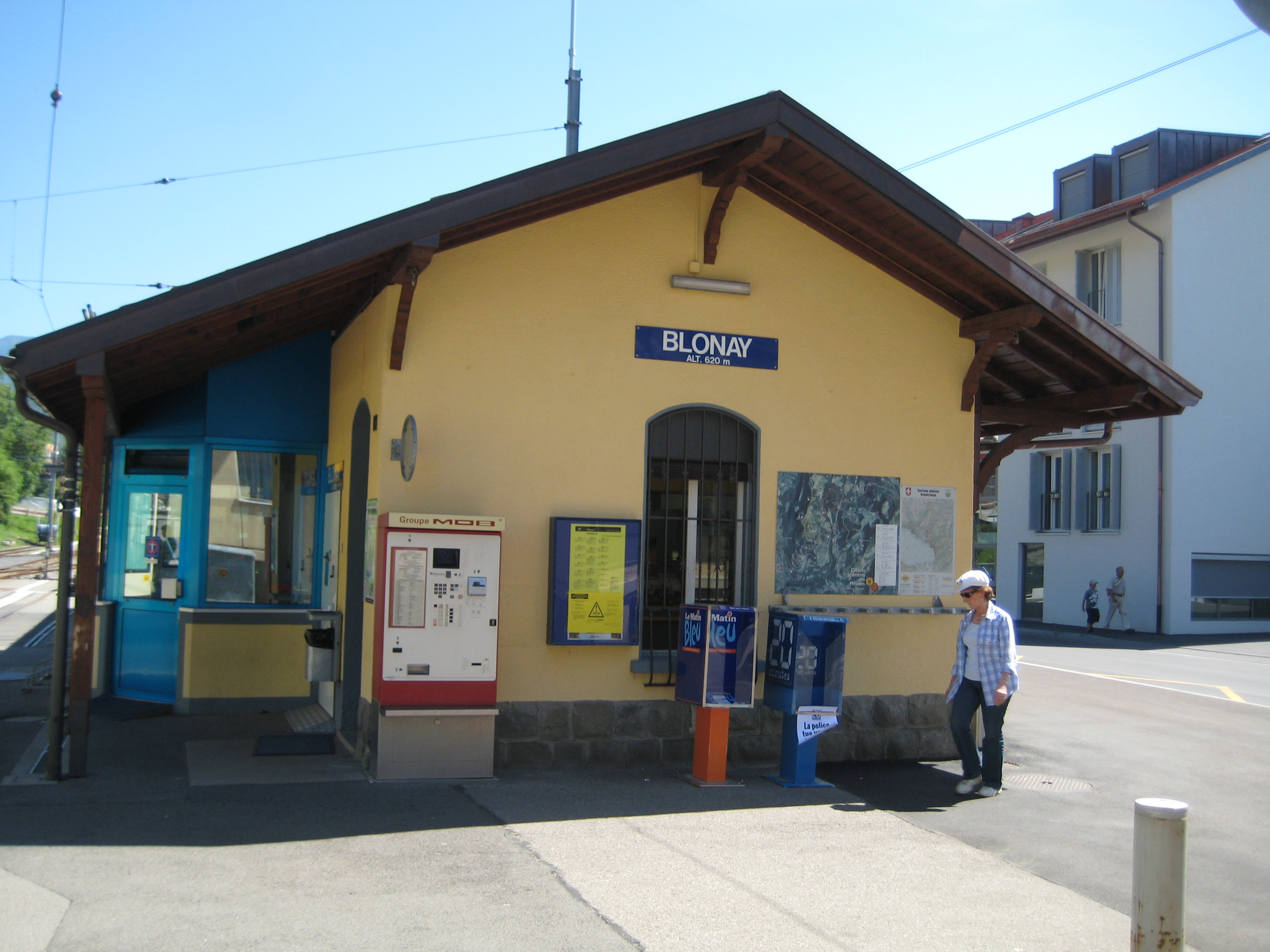 train station of Blonay, canton Vaud, Switzerland